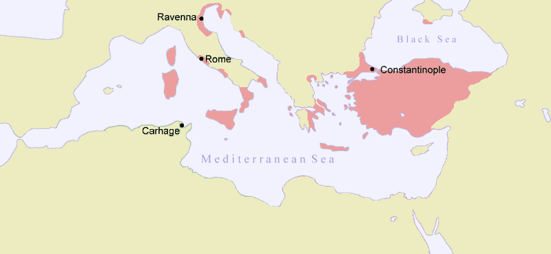 Byzantine Empire in 717 AD.